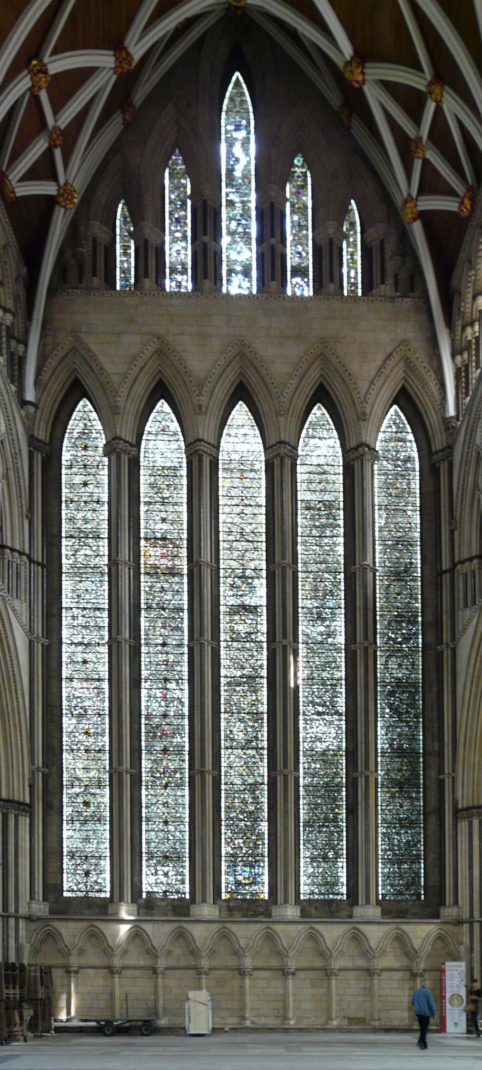 Five Sisters Window at York Minster, York, England